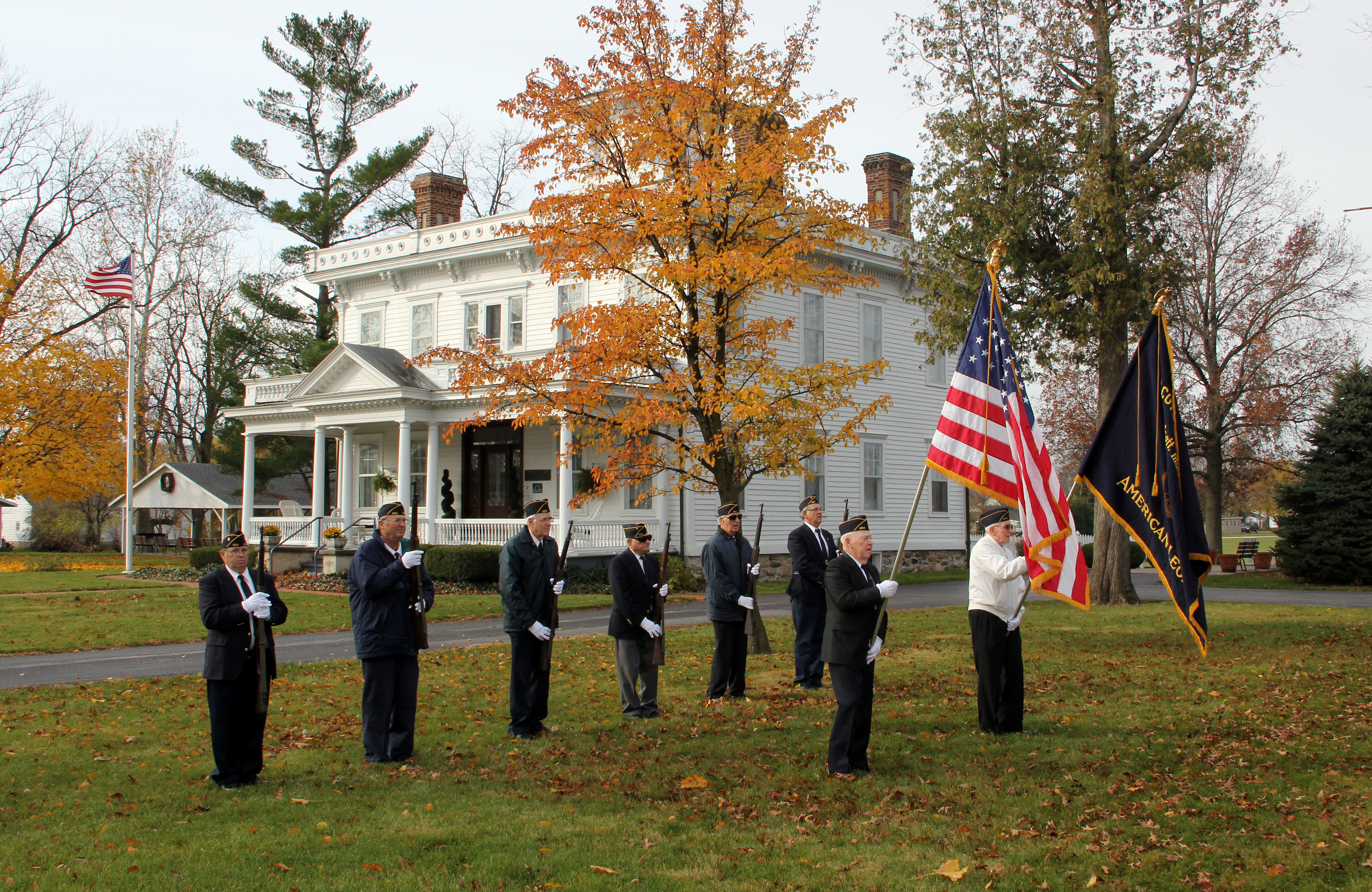 Veterans from American Legion Post #294 stand near the Wolcott House in Wolcott, Indiana during the 2011 Veterans Day ceremony. Photo looks southwest from near North Range Street.